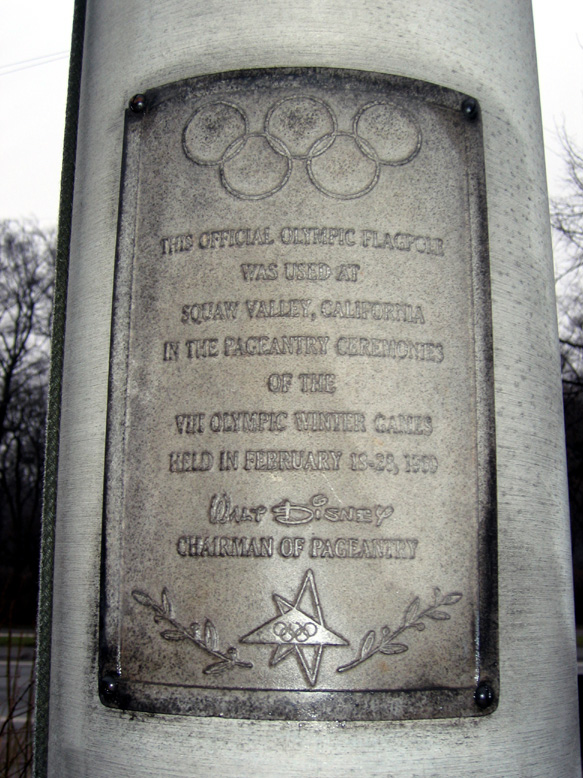 Flagpole at Egmont H. Petersens Kollegium, Copenhagen, Denmark